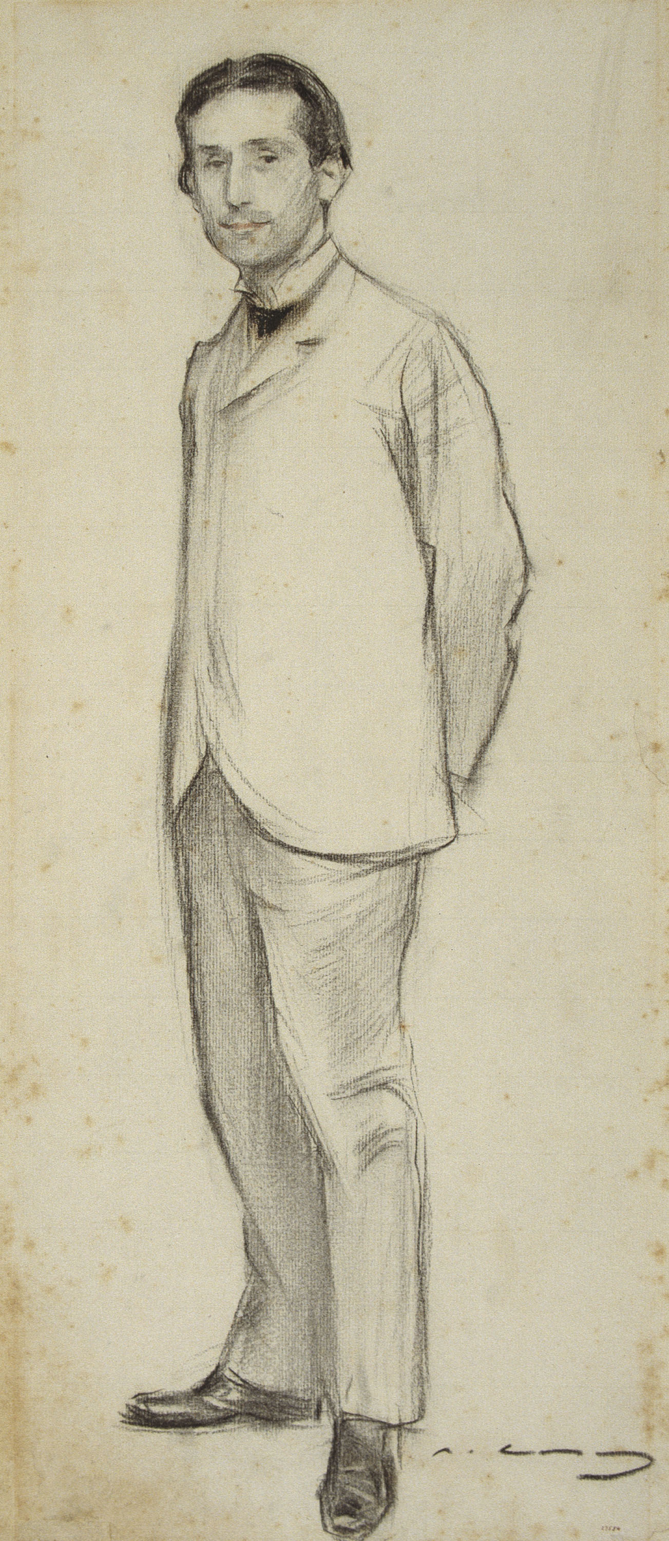 Portrait by Ramon Casas conserved at MNAC in Barcelona.